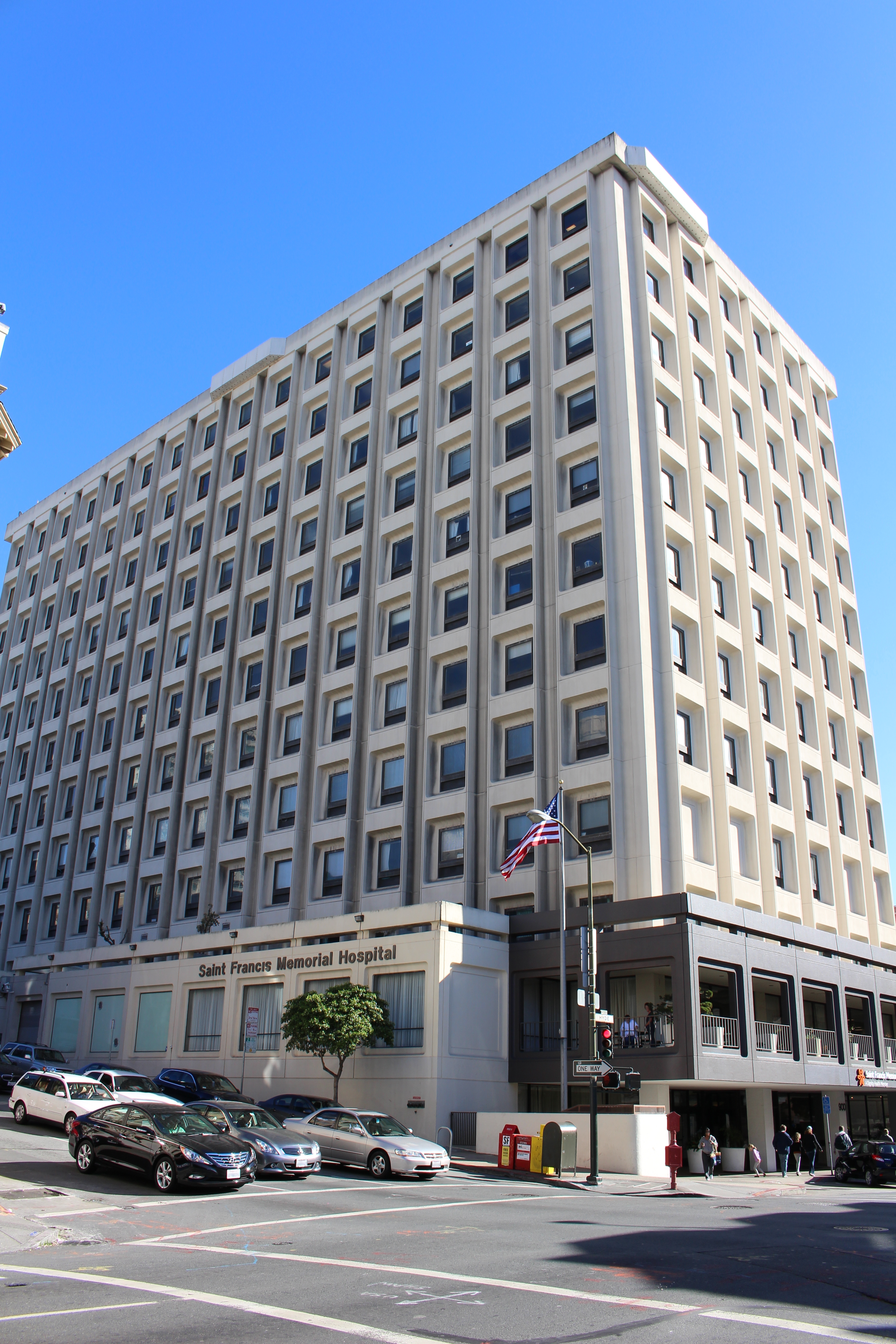 Saint Francis Memorial Hospital in San Francisco, California, USA (Some number plates and faces blurred)